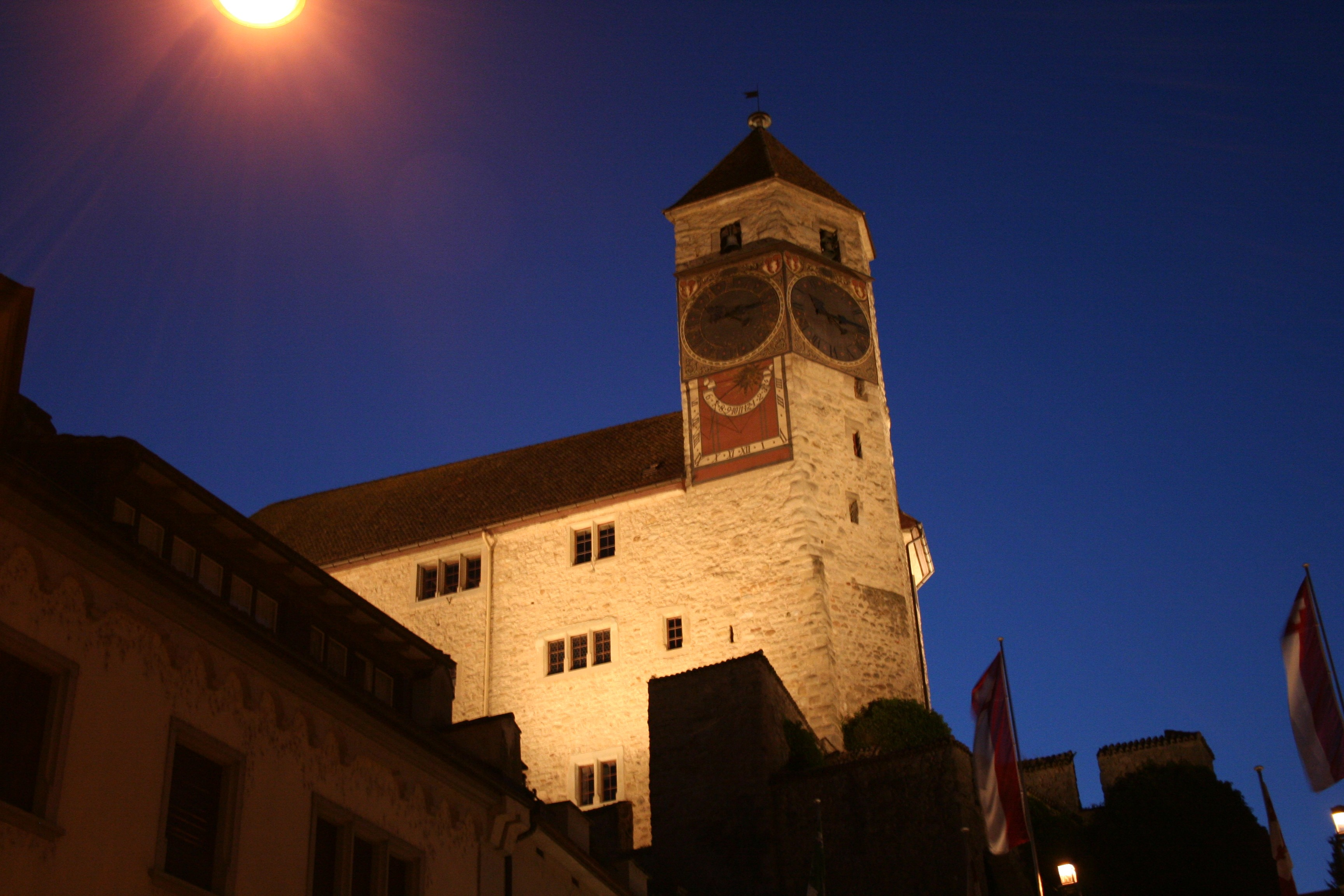 Tower of the castle in Rapperswil